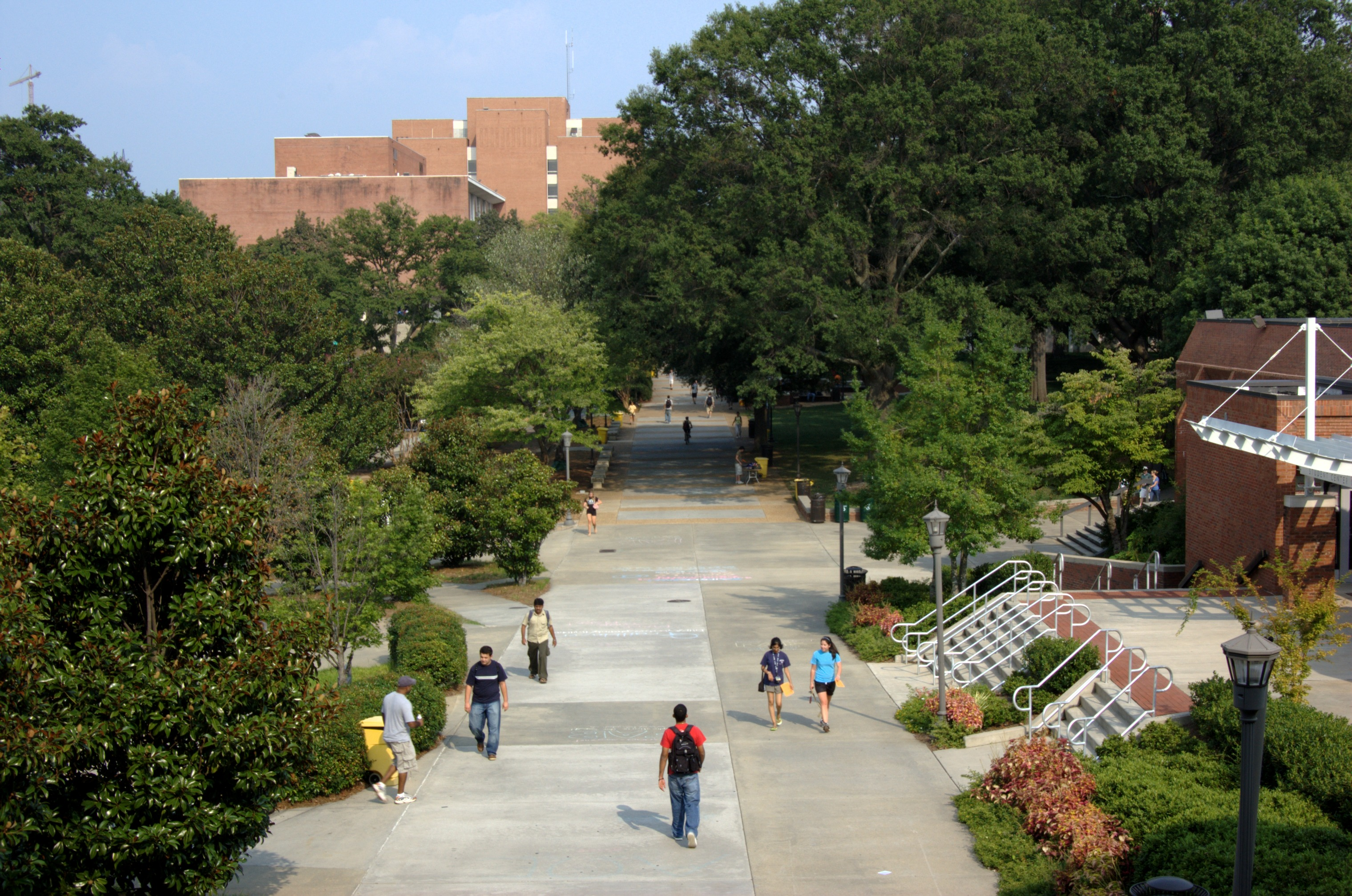 View of the Skiles walk way from the Georgia Tech Student Center.